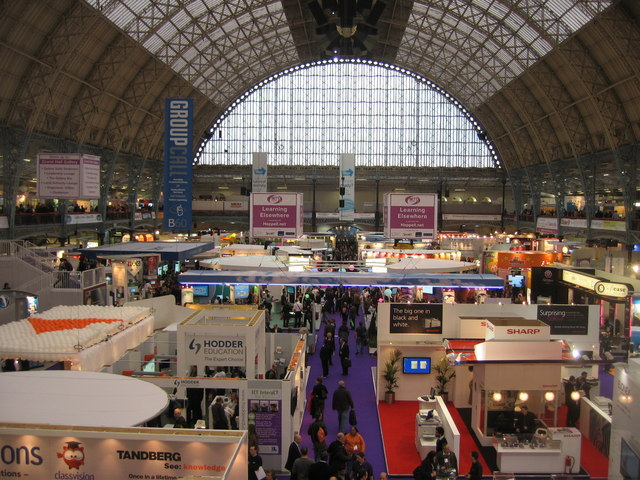 The Grand Hall - BETT Show, 2009 Full of teachers and geeks. not sure which category I fall under.